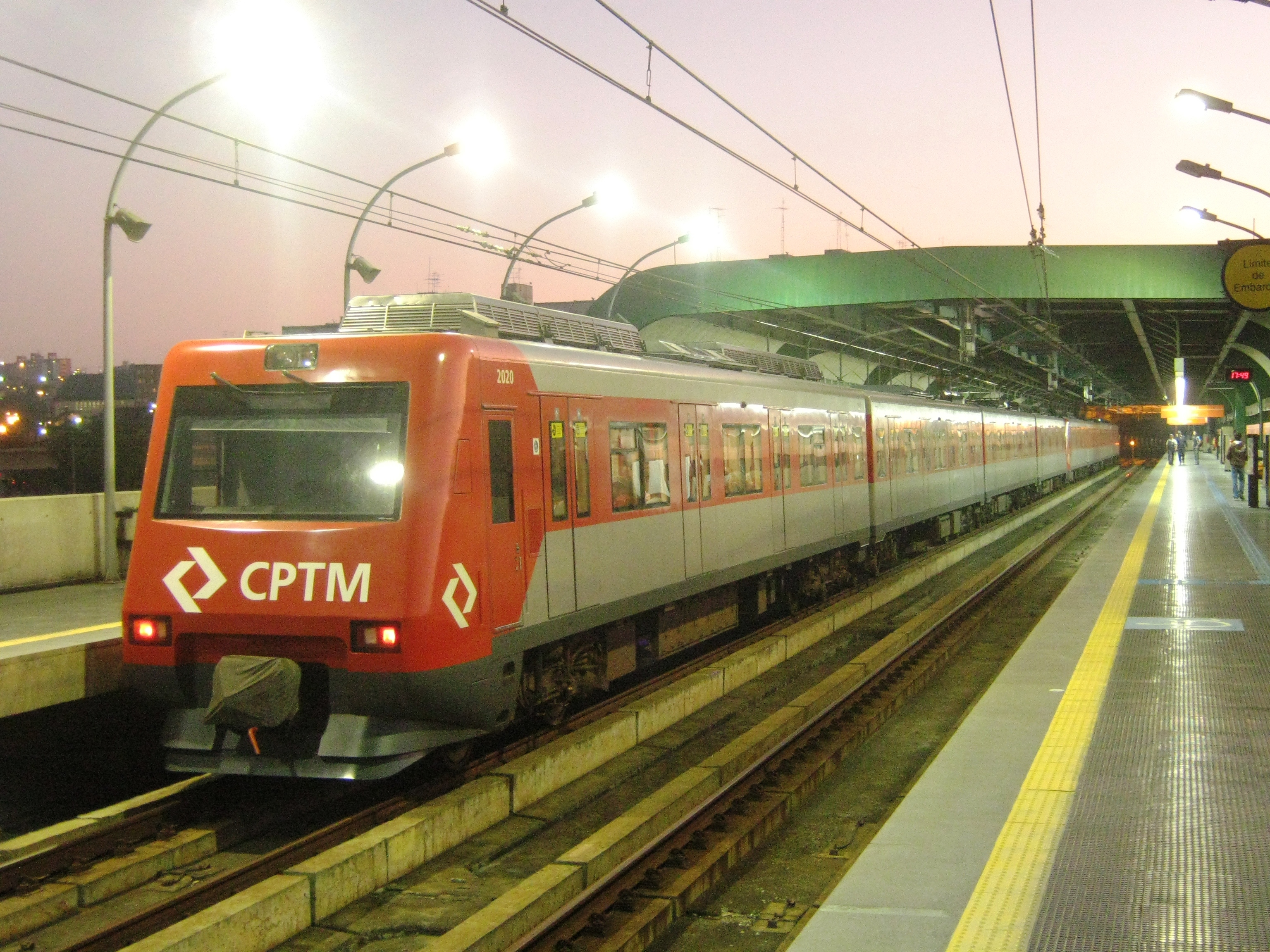 2000 Series with new paint.